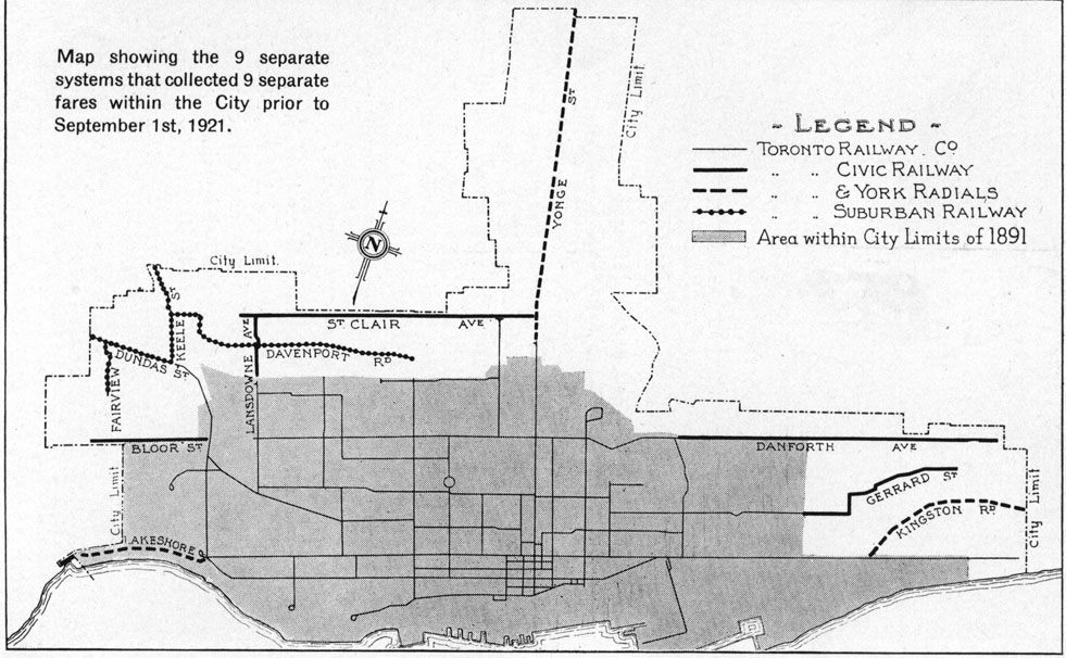 Map showing the various commuter rail lines existing in Toronto, Ontario, Canada in 1921.